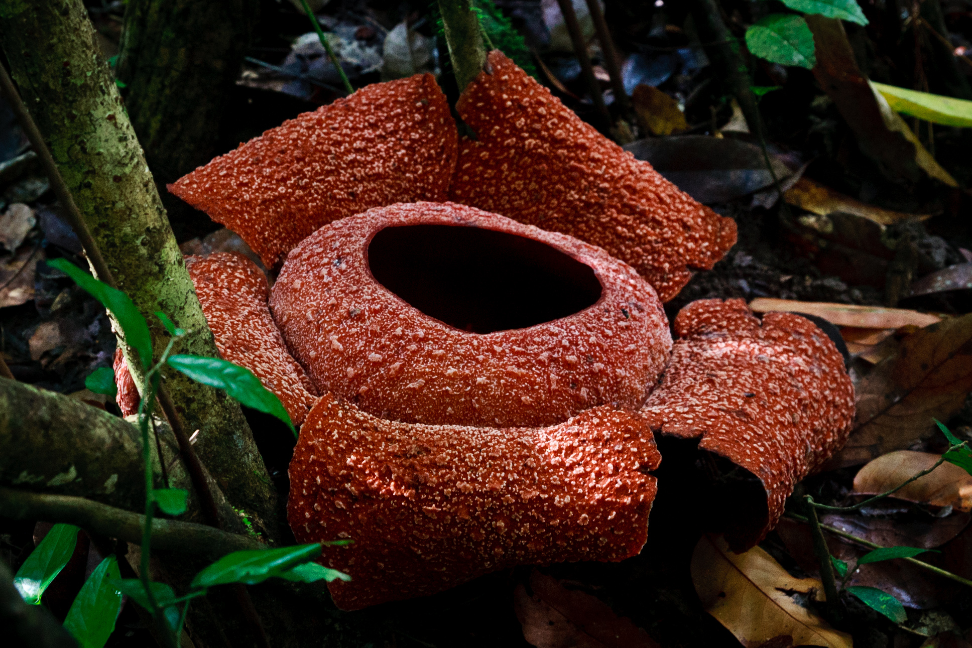 Rafflesia zollingeriana Kds found at Krecek Block, National Park Management Section (NPCS) Region II Ambulu, Meru Betiri National Park, Jember, East Java, Indonesia.